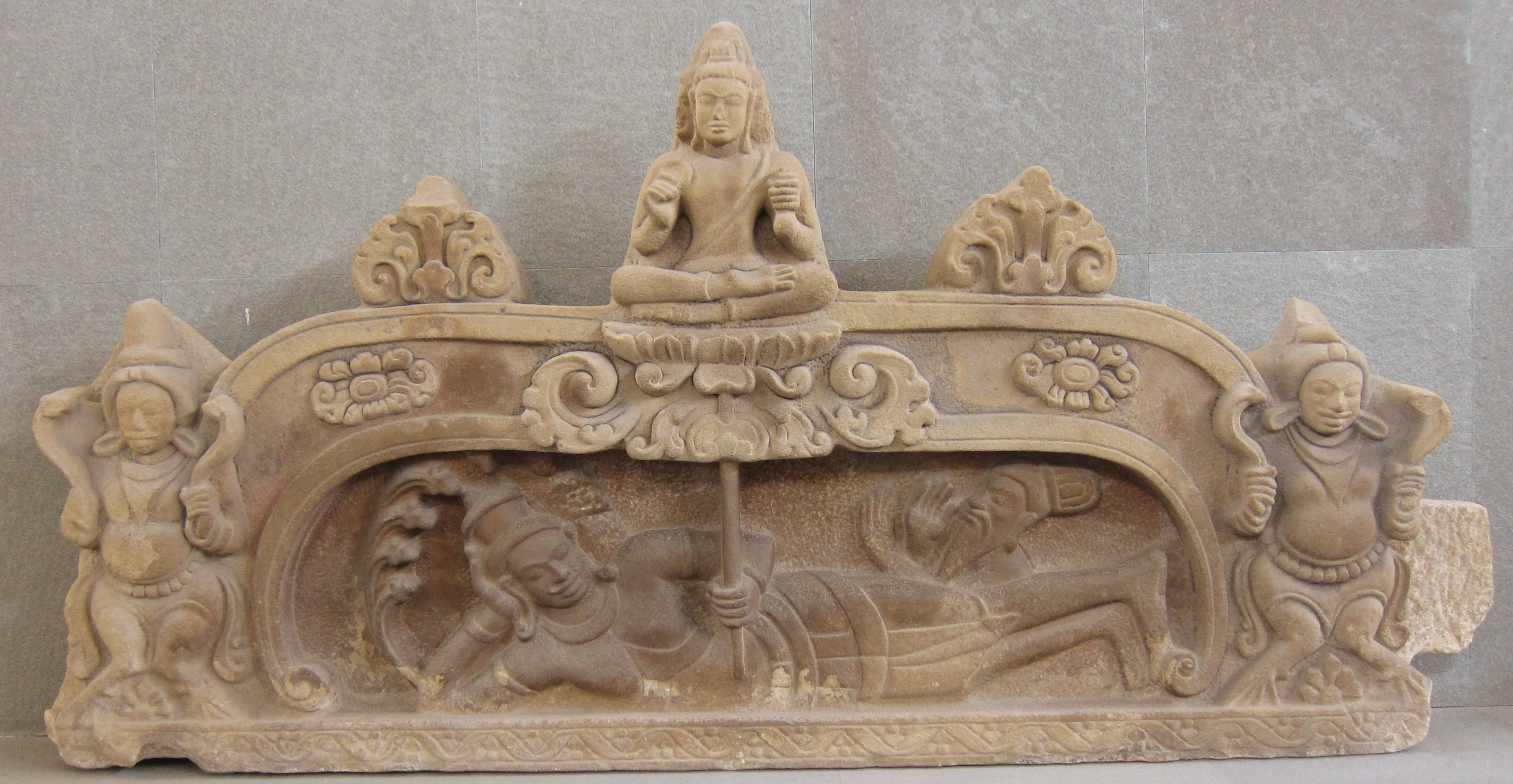 Relief sculpture belonging to the My Son E1 Style of Cham sculpture. It shows Vishnu lying at the bottom of the ocean with a lotus plant growing from his navel and Brahma being born from the lotus. 7th century sandstons